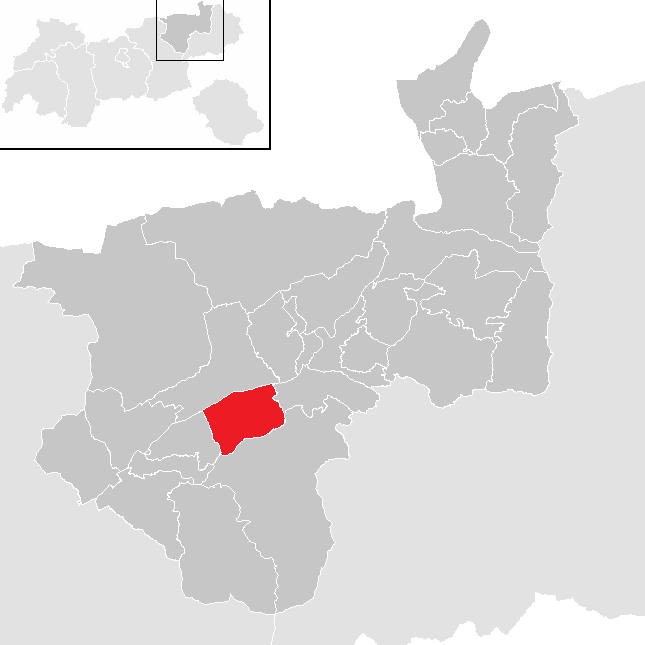 District Kufstein